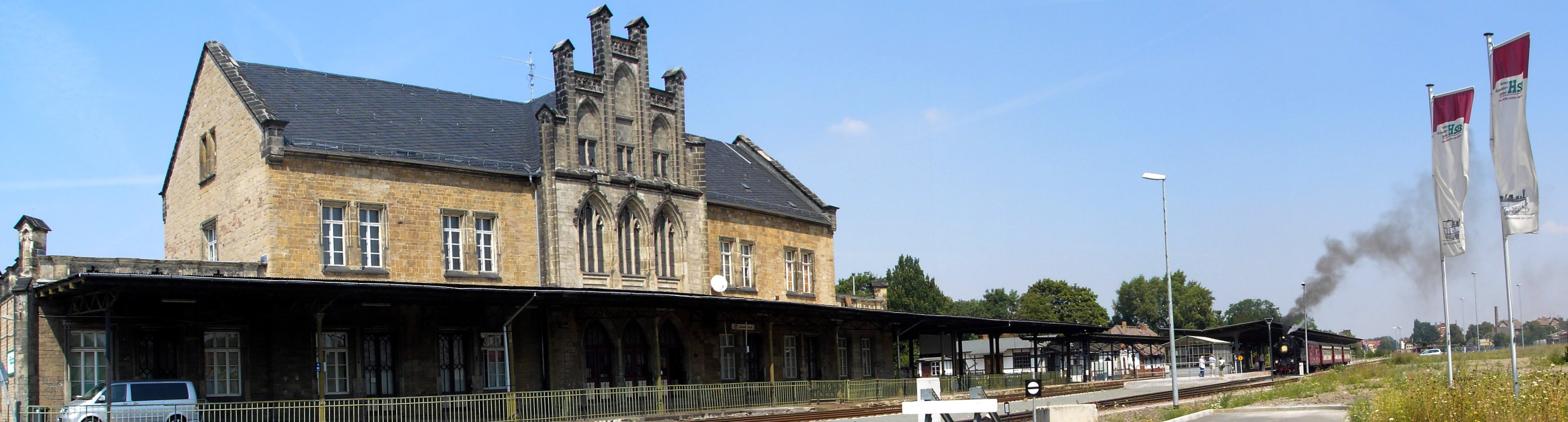 traffic junction of Quedlinburgs railway station